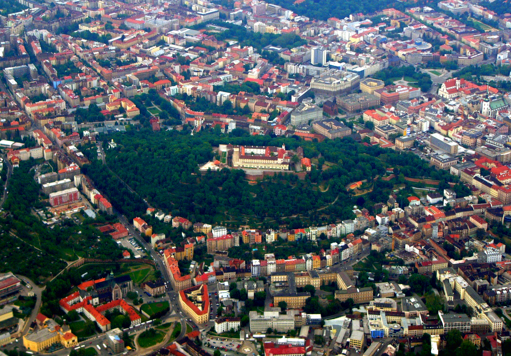 aerial photo of Špilberk Castle in Brno (Czech Republic).